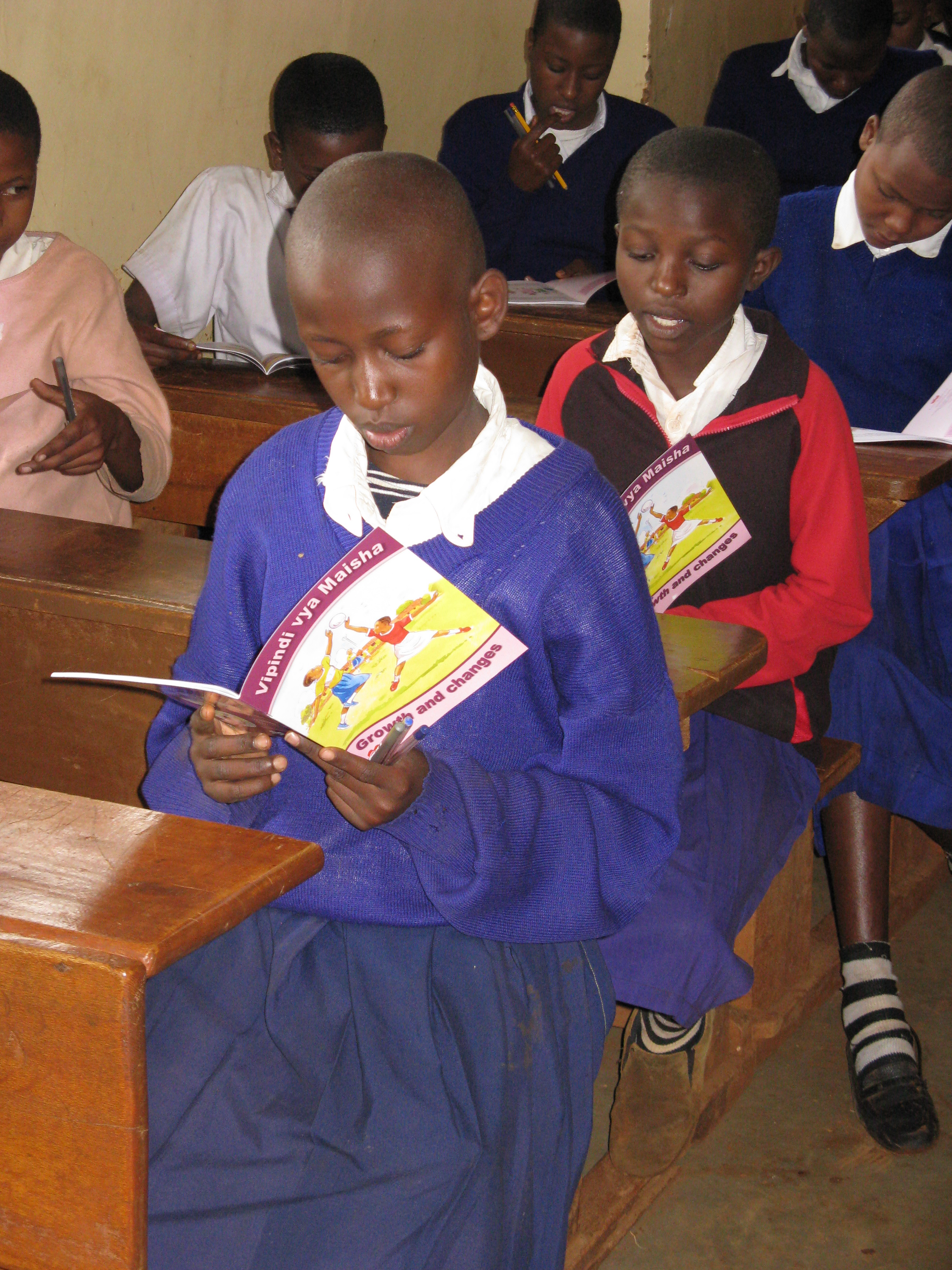 Reading in the book "Growth and change" about menstruation and puberty (Tanzania).